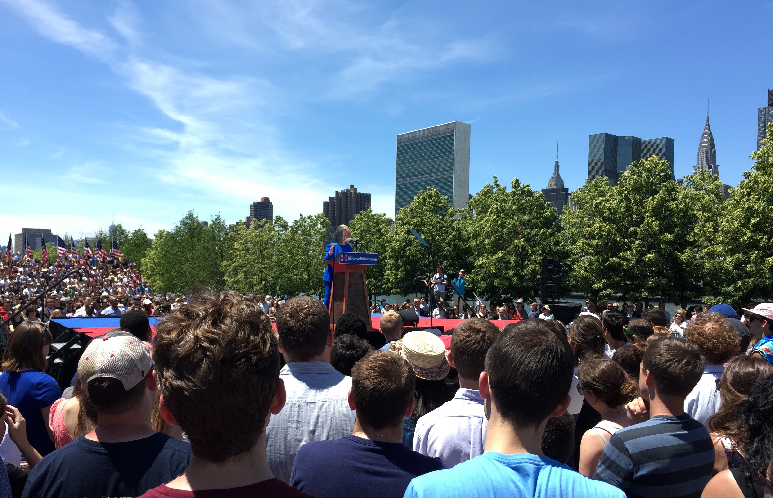 Hillary Clinton 2016 Kickoff — Speech (Cropped)